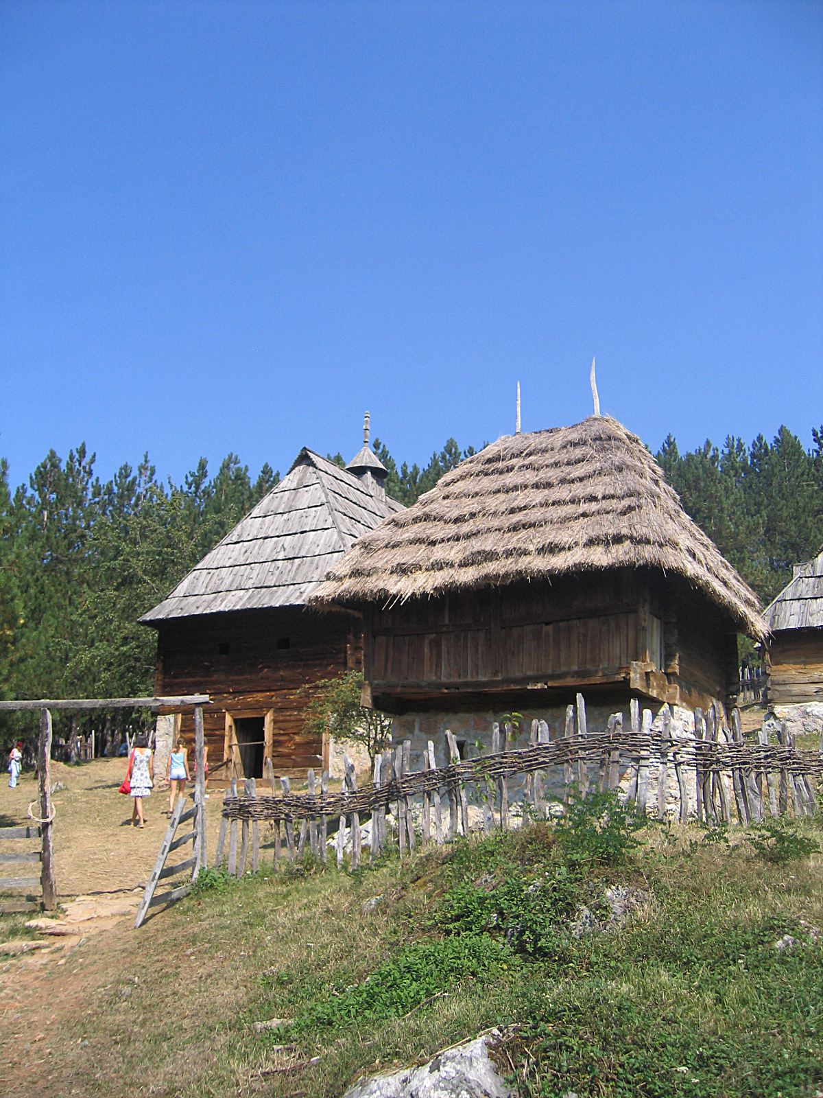 Etno village Sirogojno, Zlatibor mountain, Serbia